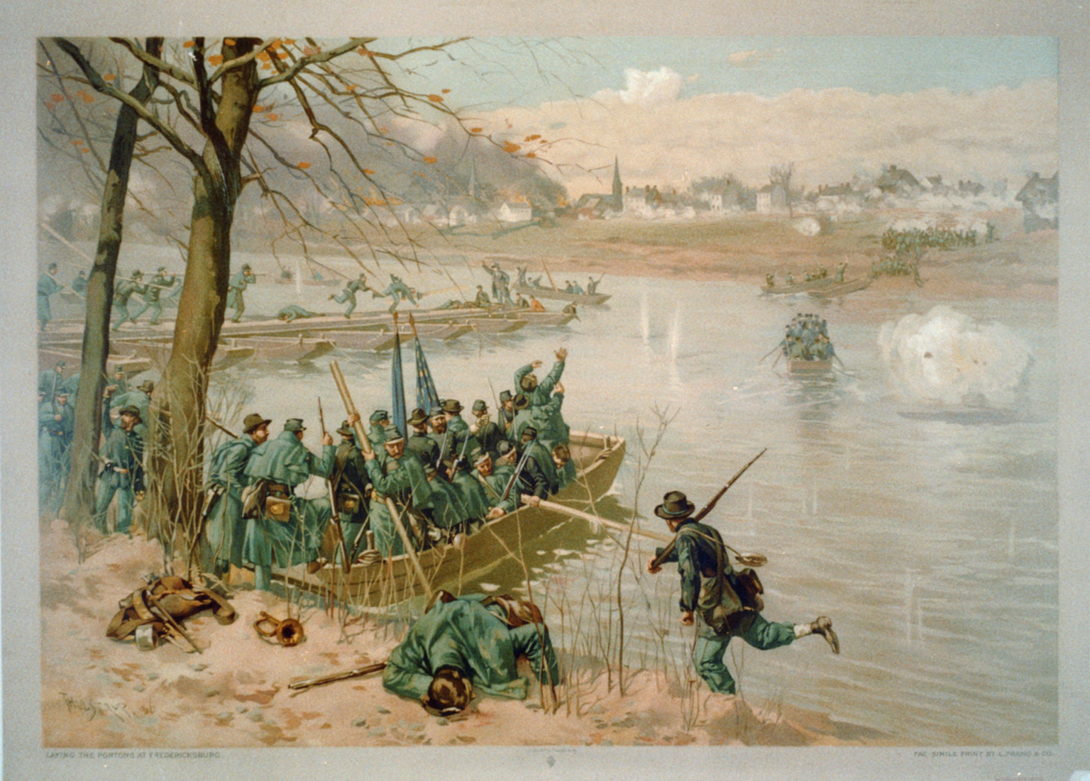 Laying the pontoons at Fredericksburg